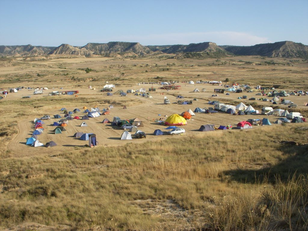 The Nowhere 2009 festival location. The picture has been taken from the mountain behind the site. The picture shows only about 2/3 of the area, there are more tents to the right side (outside the picture).